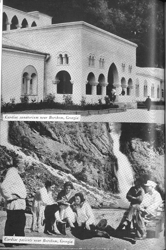 Cardiac sanatorium near Borzhom, Georgia. Cardiac patients near Borzhom, Georgia. Photograph by Margaret Bourke-White, from Sir Arthur Newsholme & John Adams Kingsbury (1933), Red Medicine: Socialized Health in Soviet Russia. DoubleDay, Doran & Company, inc; Garden City, New York 1933.